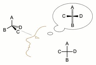 Visualization of the Fischer Projection